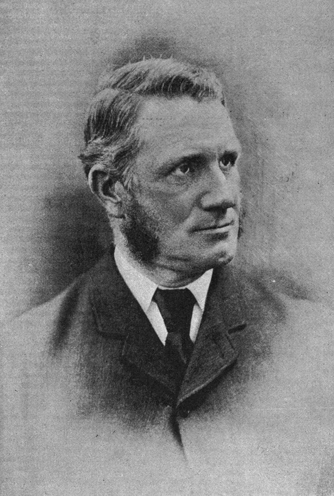 William Arrol, Page 70